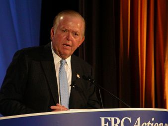 Lou Dobbs at the 2008 Christian Right Values Voter Conferencer in Washington, DC